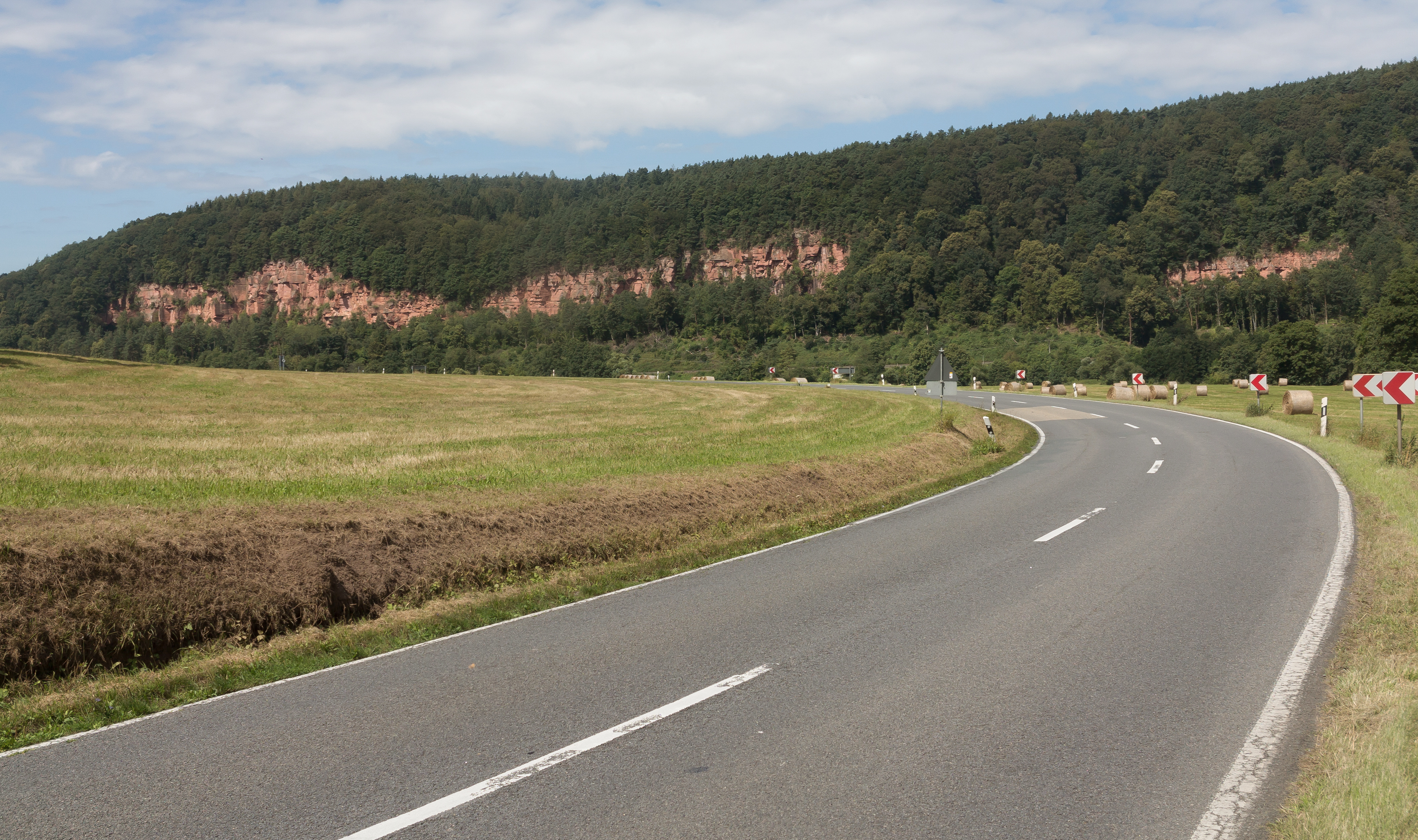 between Boxtal and Freudenberg, road panorama